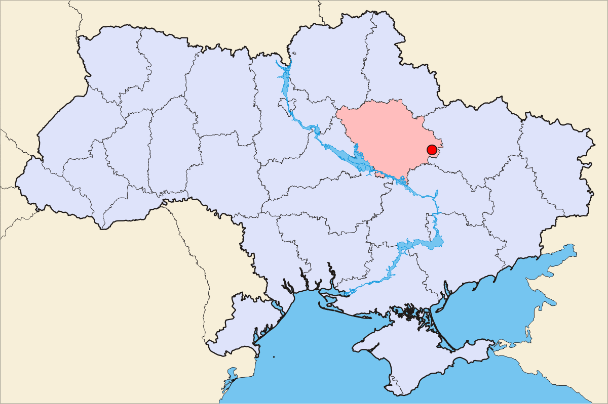 Description = Karlivka geographical position Source = own work, Skluesener Date = 15.01.2006 Author = Skluesener Credits = Colours chosen according to a map of steschke